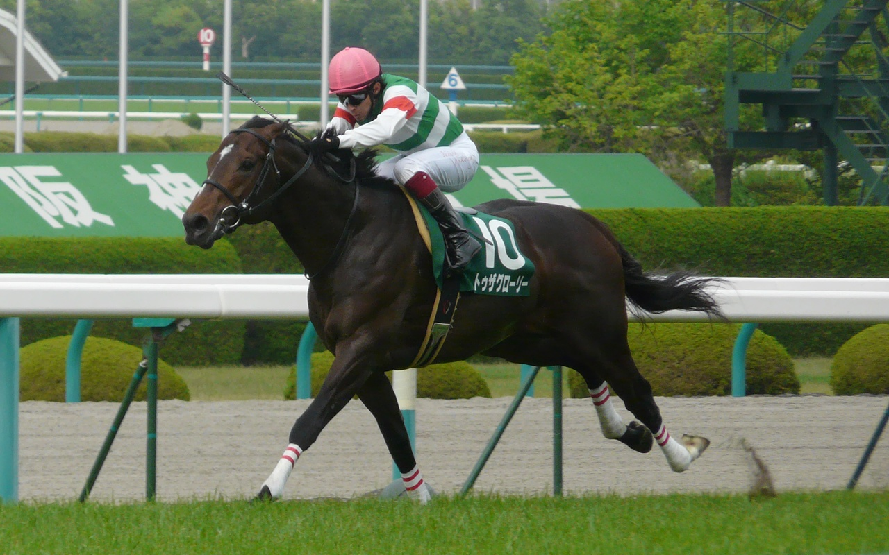 To-the-glory20120602-1